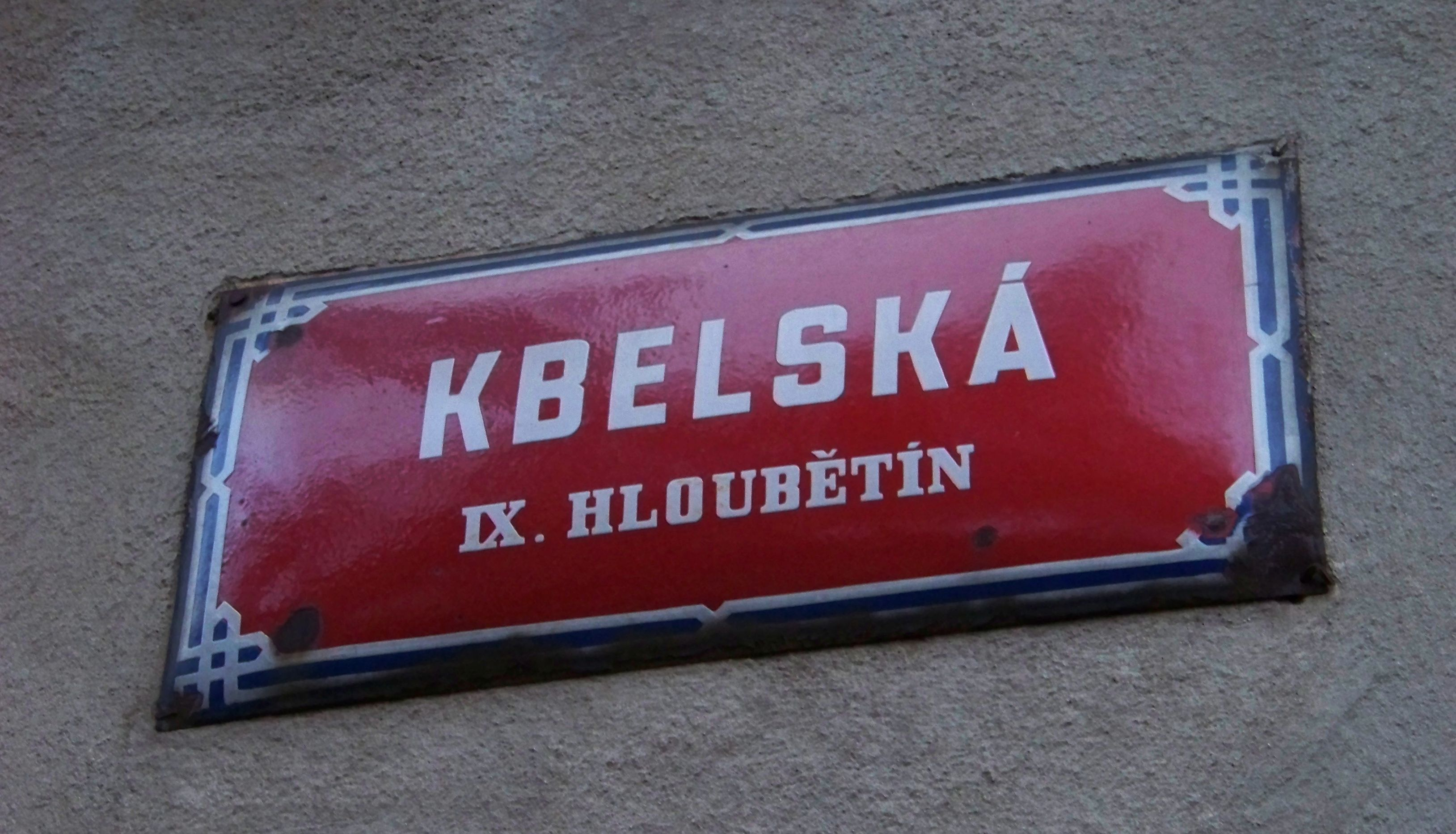 Prague-Hloubětín, the Czech Republic. Kbelská, Konzumní 138/9, an old street sign. - OpenStreetMap(Info)